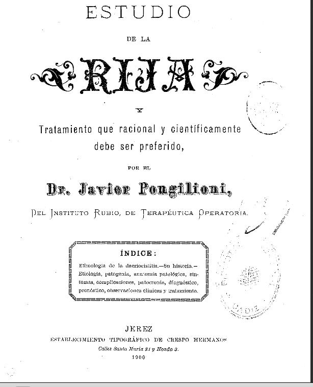 Médico Jerez